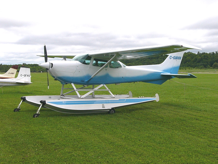 I took this photo of a Cessna R172K Hawk XP on Wipline amphib floats at Rockcliffe Airport on 03 August 2008.